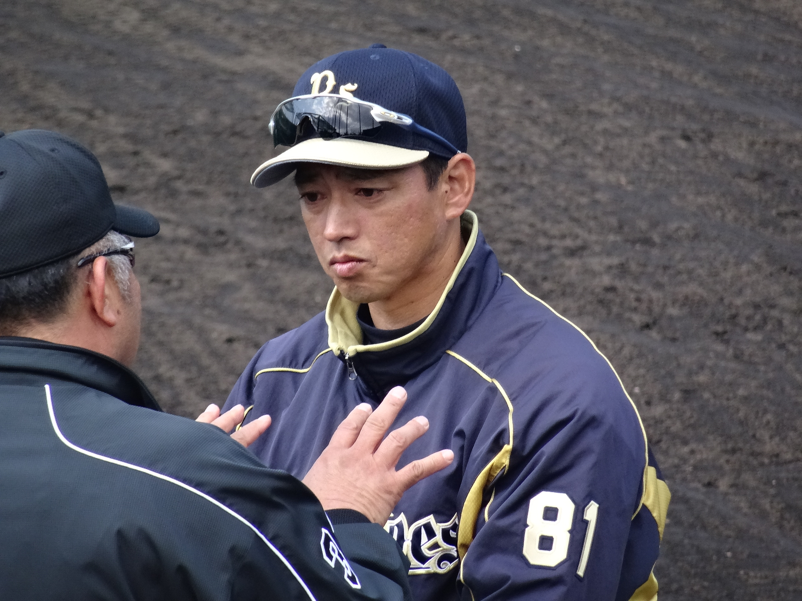 So Taguchi, manager of the Orix Buffaloes' farm team, at Hanshin Naruohama Baseball Ground